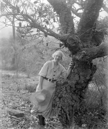 Photograph of Australian artist Margaret Preston, outside her home in Berowra